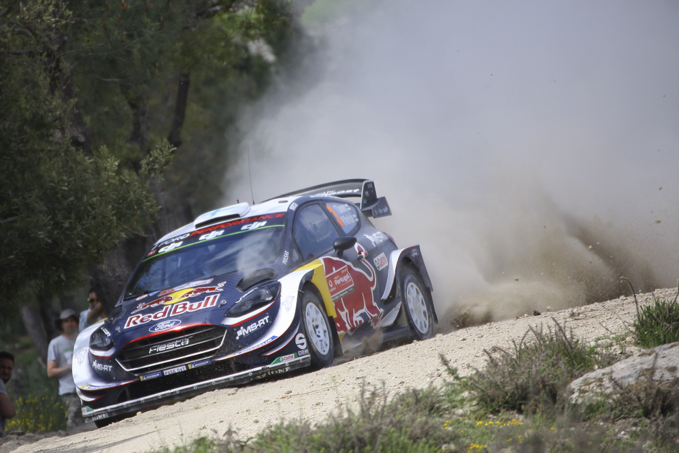 Stage of Vieira do Minho